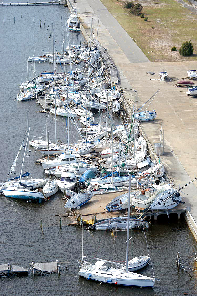 Caption: 040922-N-0000X-081 Naval Air Station Pensacola, Fla. (Sept. 22, 2004) - Hurricane Ivan sank and stacked numerous boats at Bayou Grande Marina on board Naval Air Station Pensacola. Navy officials reported that nearly 90 percent of the buildings on the base suffered significant damage. Ivan made landfall at Gulf Shores, Ala., at approximately 3:15 a.m. EST Sept. 16, with winds of 130 MPH. U.S. Navy Photo (RELEASED) Ivan